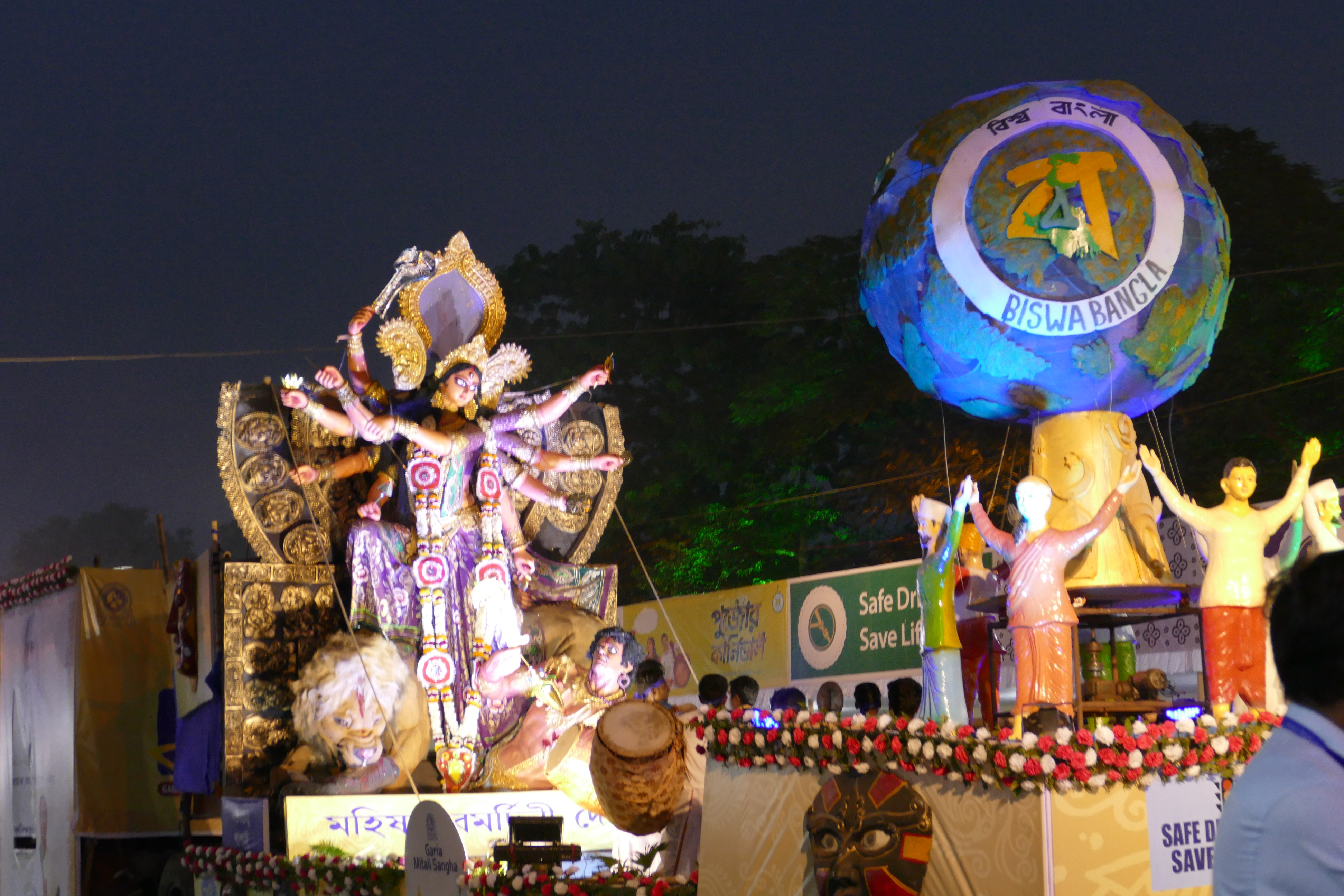 Durga Puja Carnival Red road Kolkata 2018